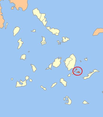 Locator map of Koufonisi communitiy (Κοινότητα Κουφονησίων) in Cyclades prefecture (Νομός Κυκλάδων) in Greece.